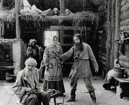 Edward Connelly (Rasputin, right) in The Fall of the Romanoffs (1917) - cropped screenshot